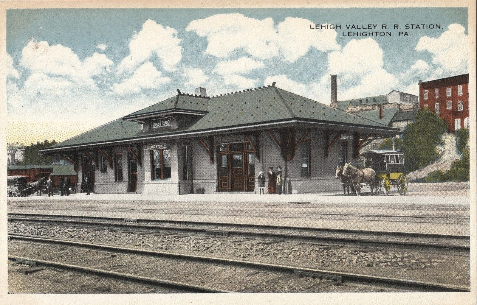 A postcard of the Lehigh Valley Railroad station in Lehighton, Pennsylvania.